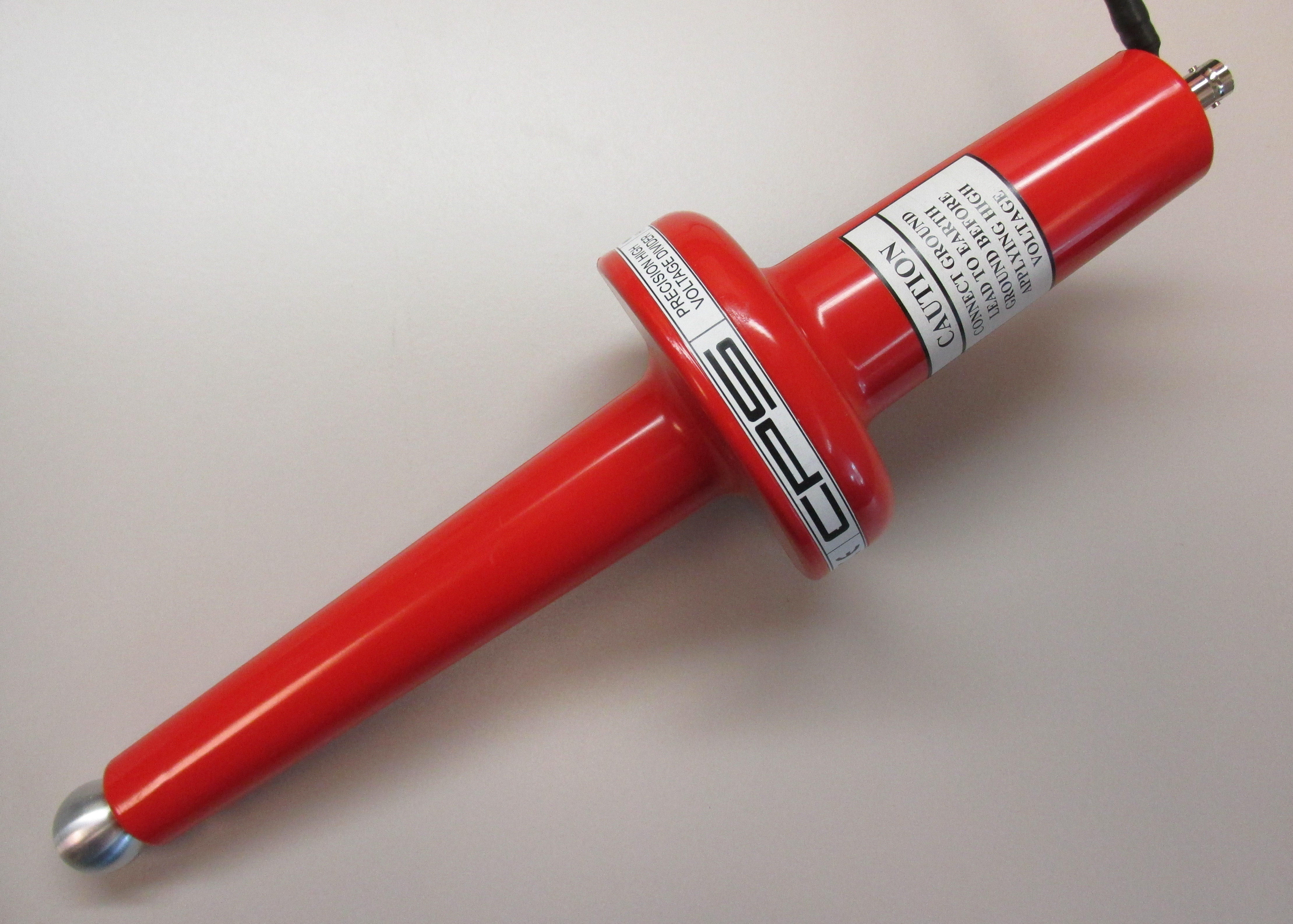 CPS model 250 high voltage resistive divider probe. This probe allows my low voltage DVM to measure up to 50 kVDC with less than 0.05% error. It's used to calibrate various power supplies (e.g., beam, wehnelt) in scanning electron microscopes.